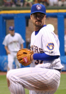 Description Cropped version of file listed below. Picture of Jeff Suppan in throwback Brewers uniform. Date2 September 2009, 19:53 (UTC)SourceSee file below.Authorcropped by KV5 (Talk • Phils)Permission(Reusing this file) CC-BY-SA Other versions Jeff Suppan.jpg 19:53, 2 September 2009 . . Killervogel5 . . 212×301 (73 KB) Cropped version of file listed below. Picture of Jeff Suppan in throwback Brewers uniform.